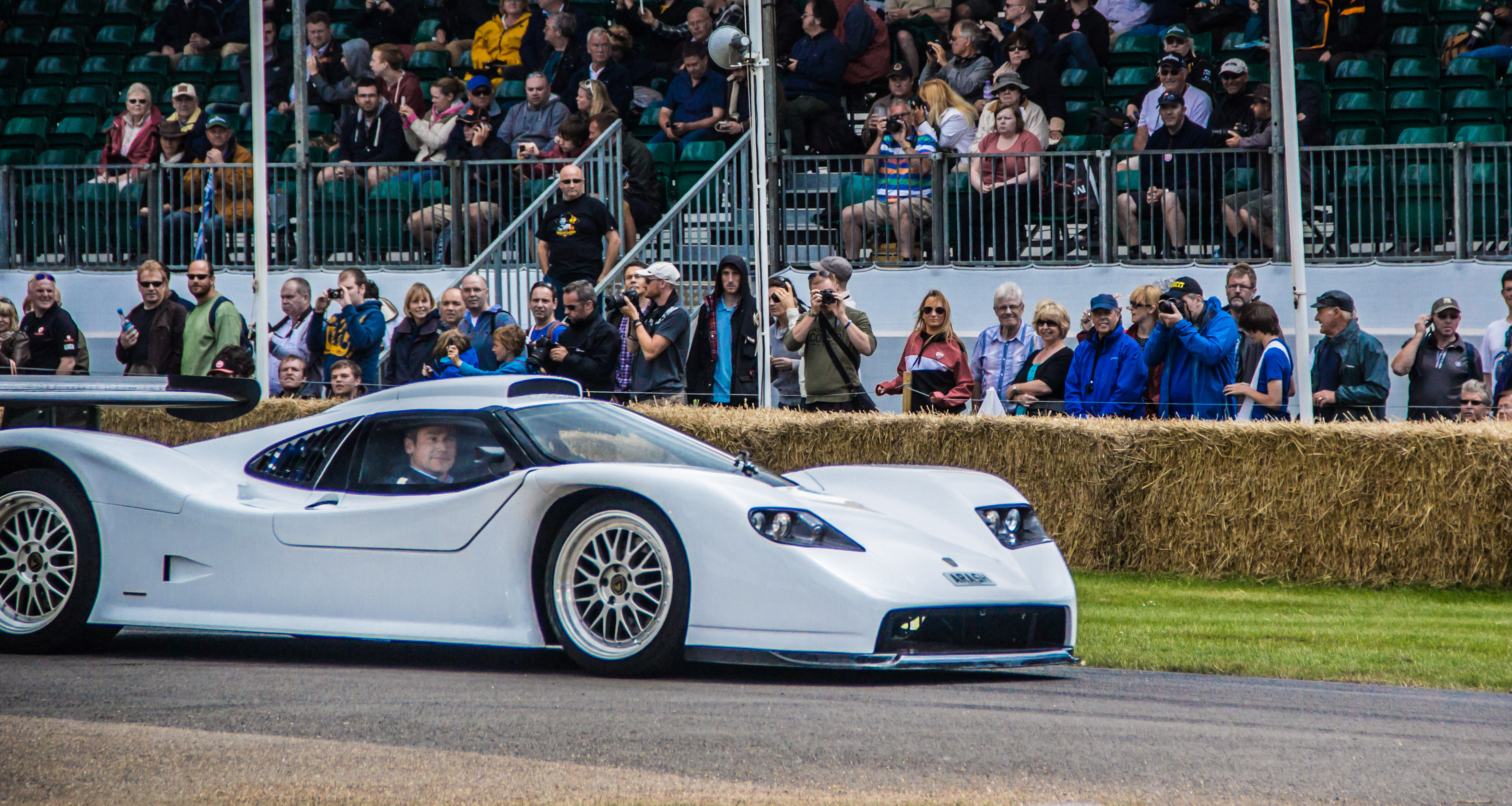 Farboud GT / Arash